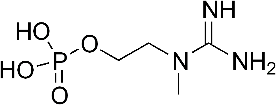 chemical structure of creatinolfosfate (creatinol phosphate)